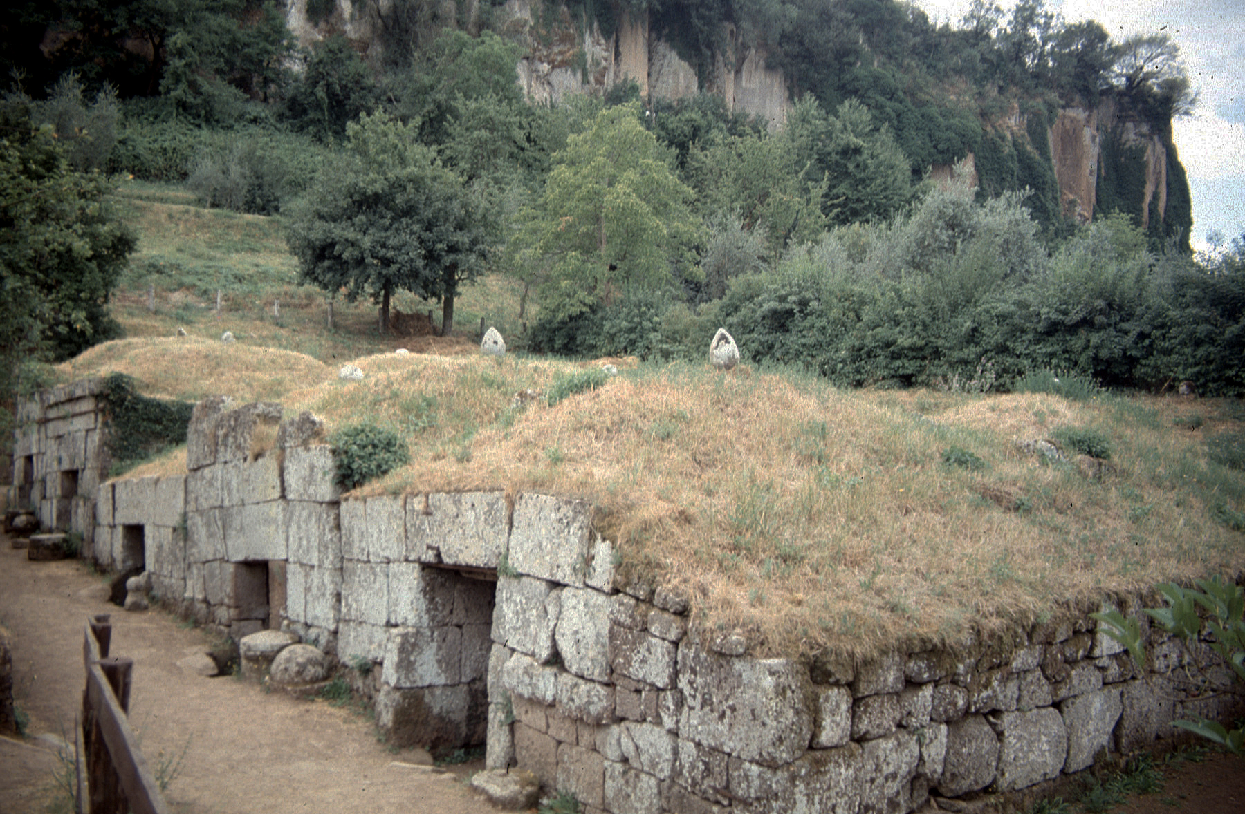 AWIB-ISAW: Etruscan Tombs at Orvieto (III) Several Etruscan tombs at Orvieto. by K. McDonnell copyright: K. McDonnell (used with permission) photographed place: (Orvieto) Published by the Institute for the Study of the Ancient World as part of the Ancient World Image Bank (AWIB). Further information